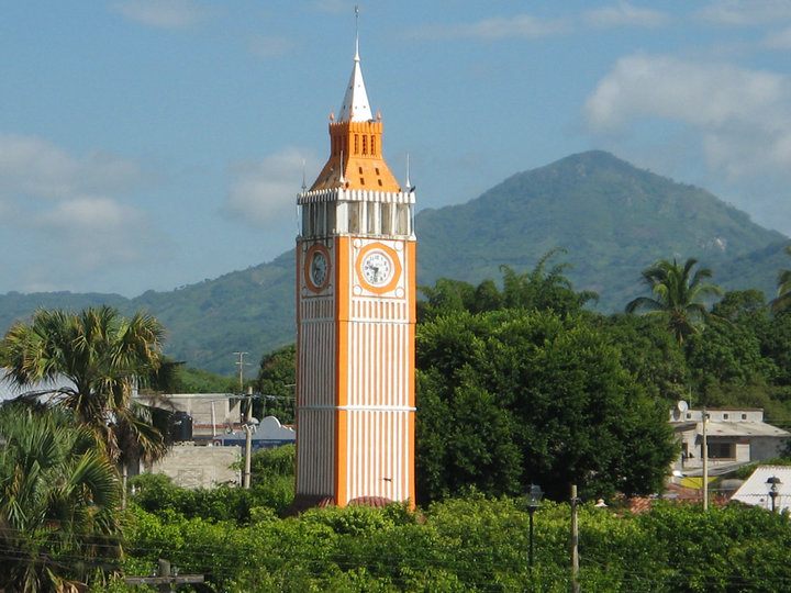 The Cacahuatepec public clock tower